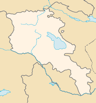 Map of Armenia for Template:Location map